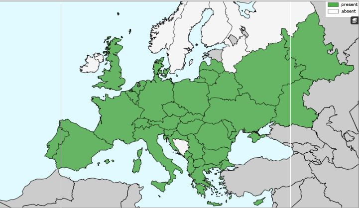 Rasprostranjenje vrste u Evropi (Fauna Europaea)